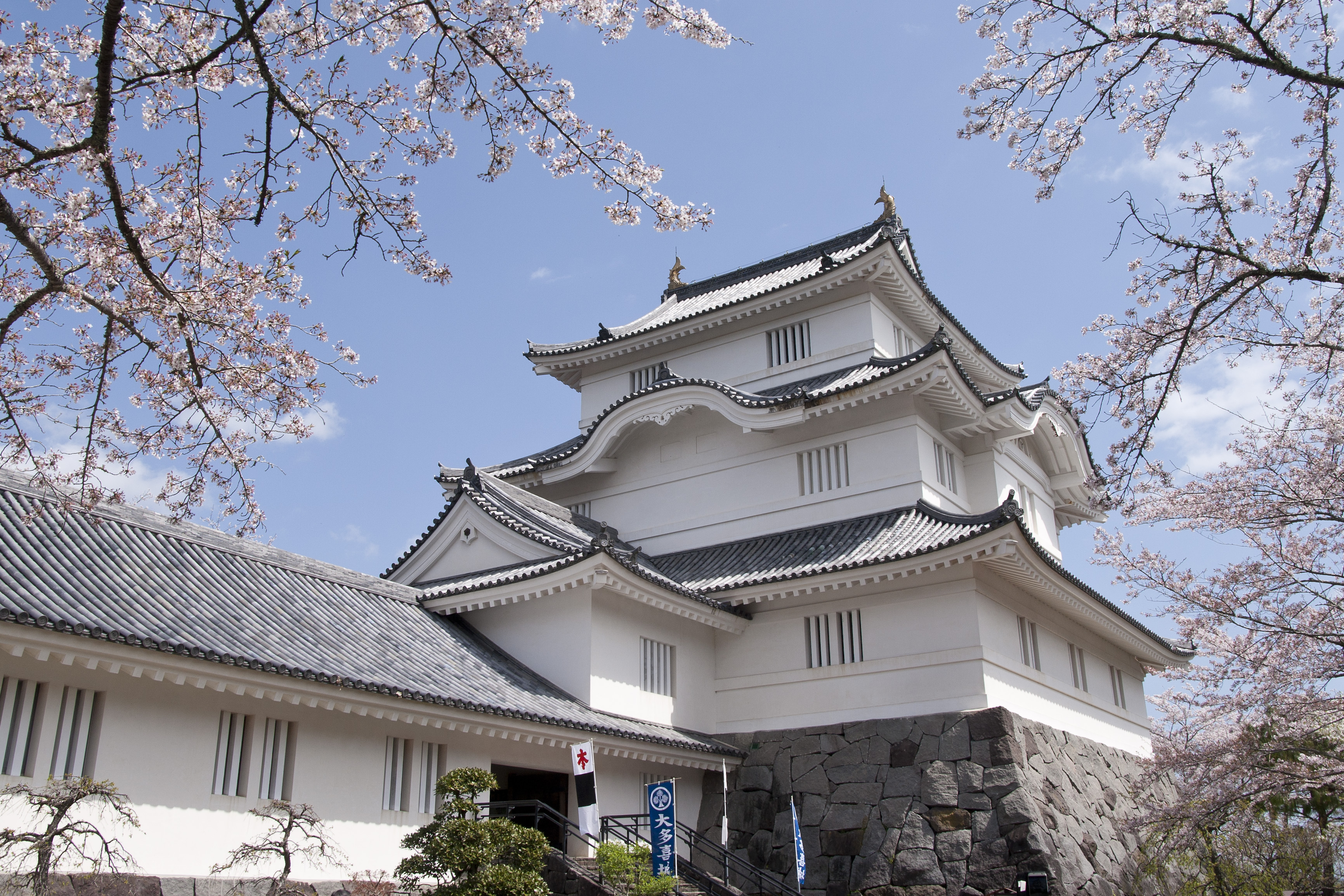 Otaki castle, Otaki Town, Chiba Pref., Japan